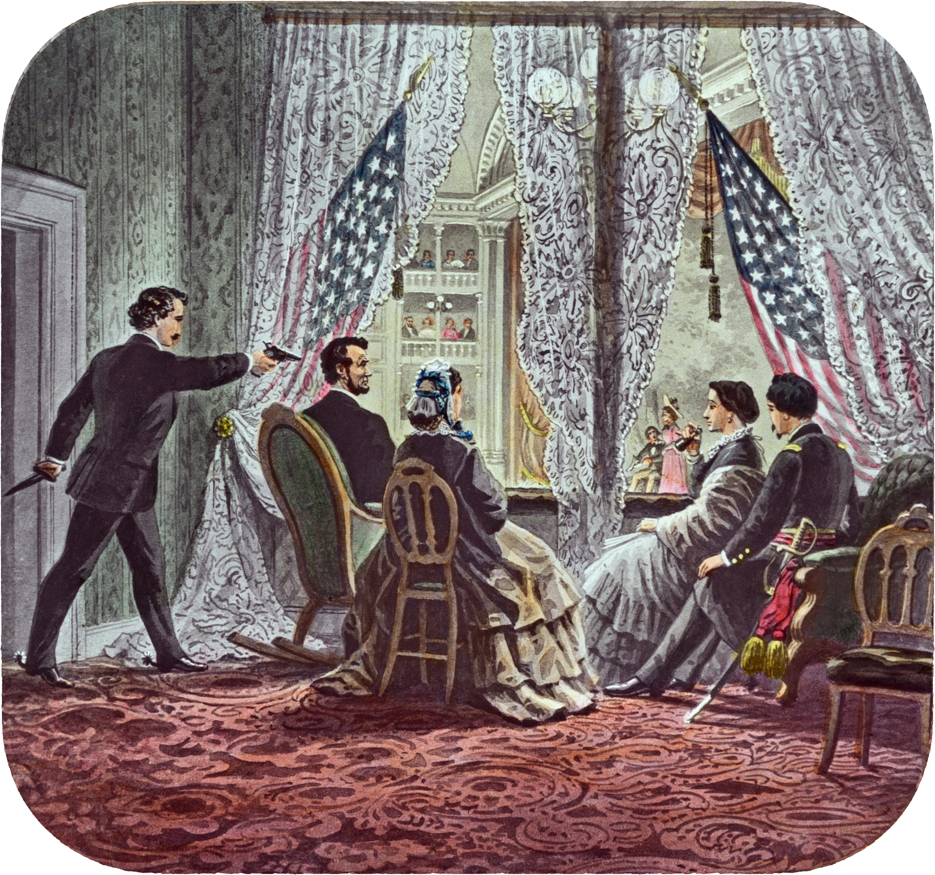 4"x3" slide depicting John Wilkes Booth leaning forward to shoot President Abraham Lincoln as he watches Our American Cousin at Ford's Theater in Washington, D.C. 14 April 1865.